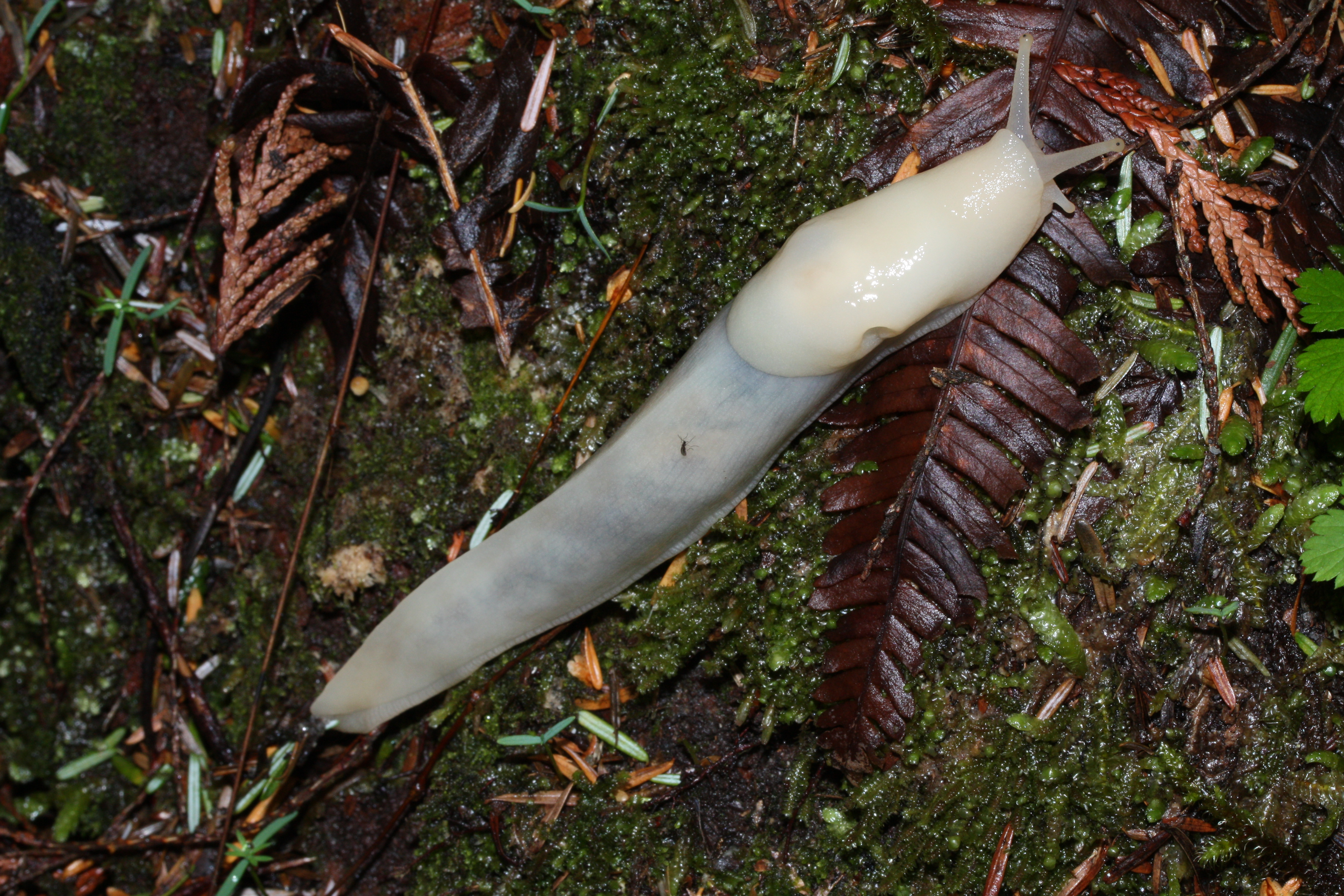 Pacific Banana Slug